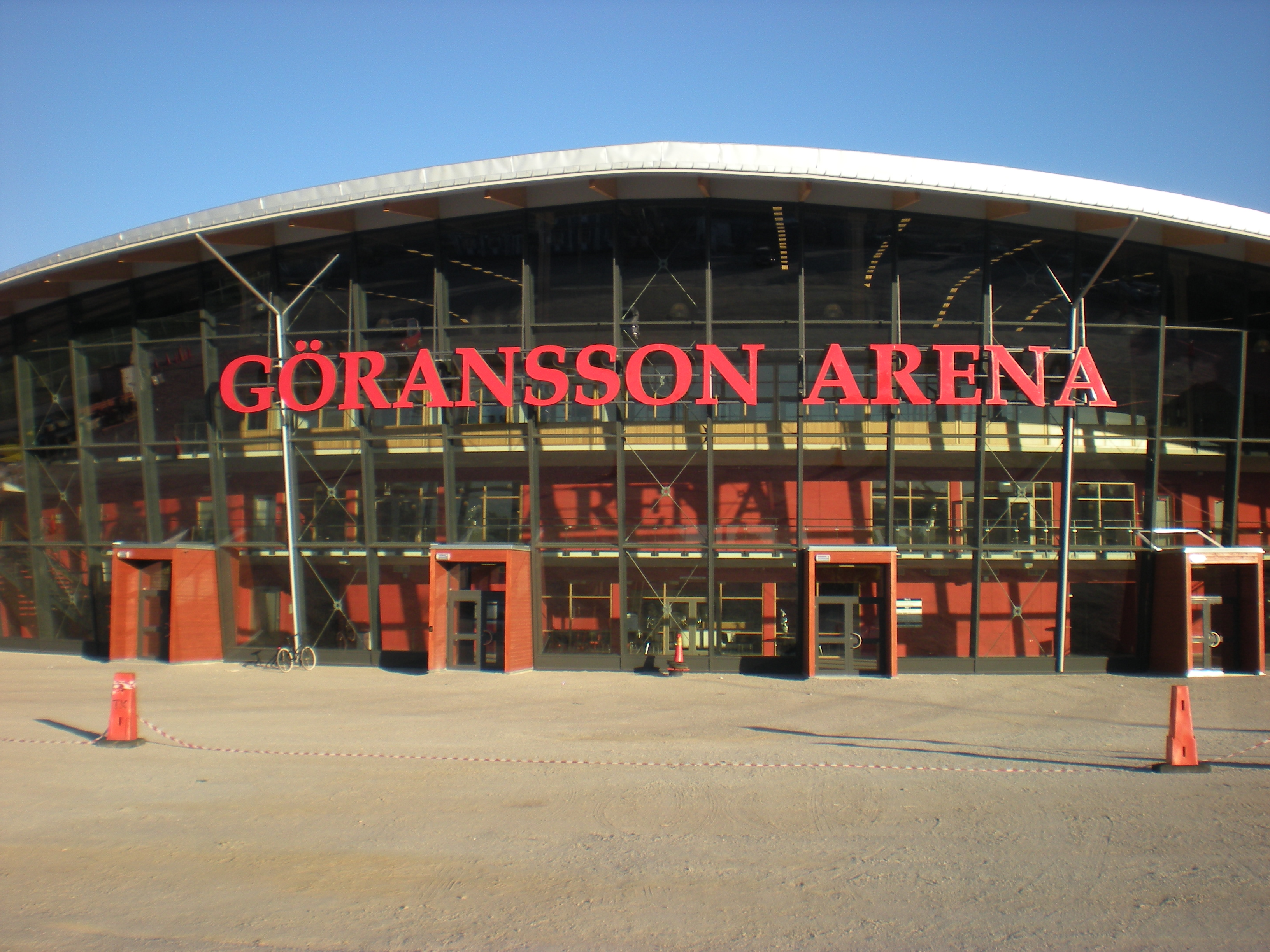 Main entrance of Göransson Arena